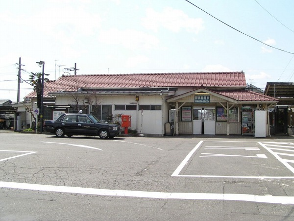 Gunma-Sōja Station of the Jōestu Line, Maebashi, Gunma, Japan